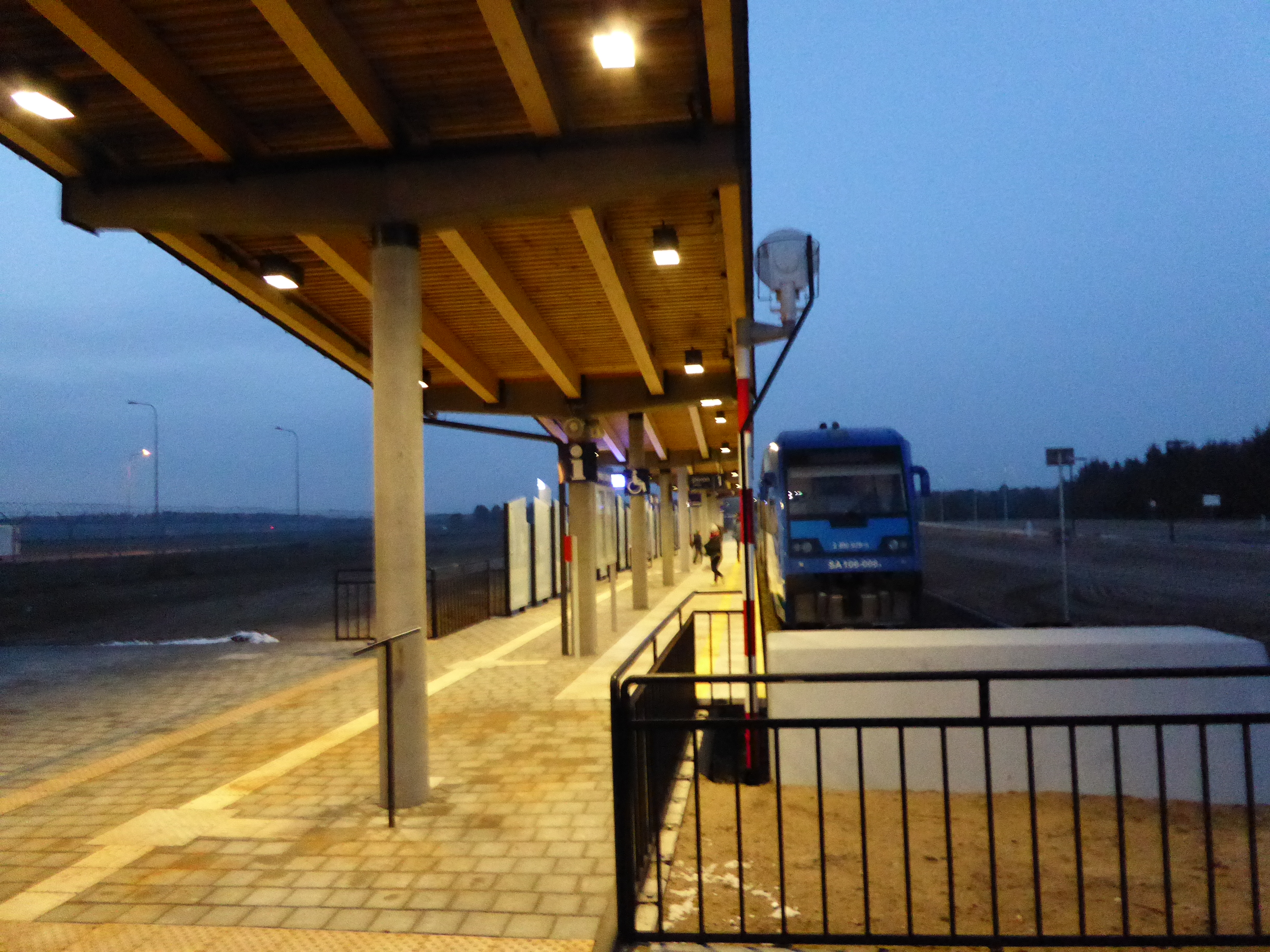 Railway station at Olsztyn-Mazury Airport, Szymany